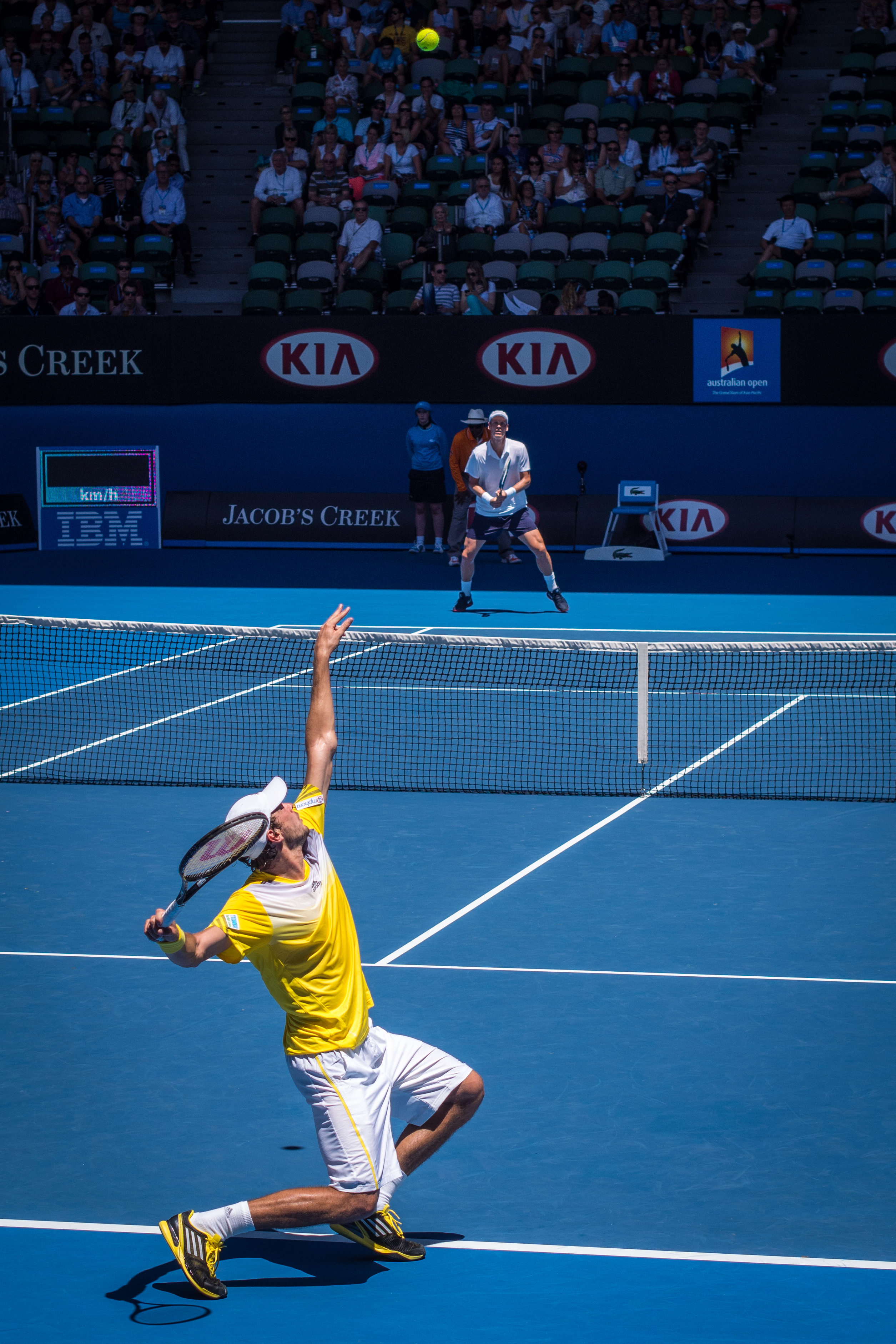 Guillaume Rufin serves to Tomas Berdych at Rod Laver Arena in the 2nd round of the 2013 Australian Open